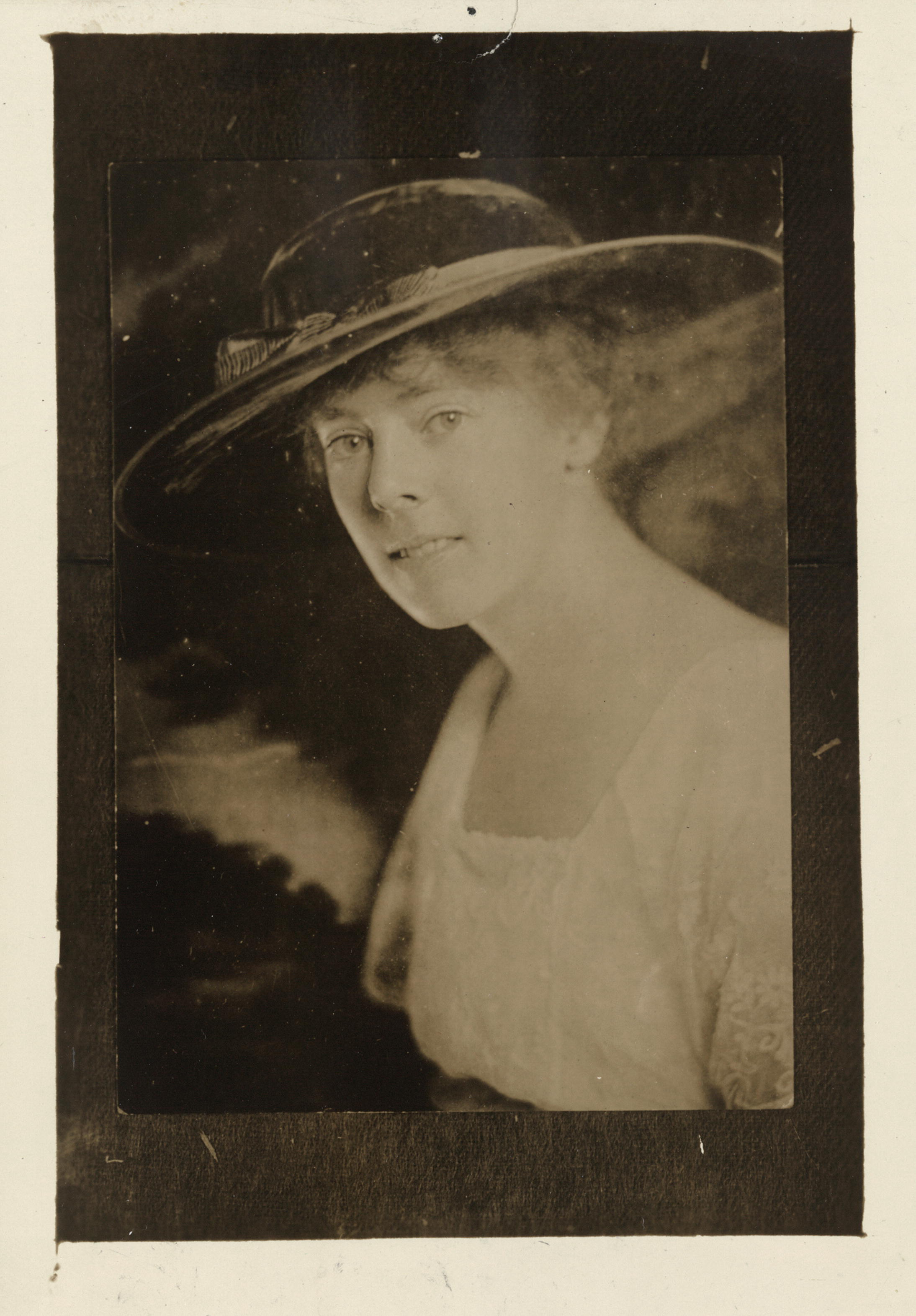 Summary: Formal portrait, head and chest, Katherine Morey, facing left with head turned toward camera, wearing wide-brimmed hat. Photograph published in The Suffragist, 4, no. 40 (Sept. 30, 1916): 8, and The Suffragist, 4, no. 47 (Nov. 18, 1916): 8. Katharine A. Morey of Brookline, Mass., was an officer of the Massachusetts State Branch of the NWP. She was the daughter of NWP organizer and state suffrage activist Agnes H. Morey. Katharine Morey worked as an organizer in the election campaign of 1916 in Kansas and frequently assisted at NWP national headquarters in Washington, D.C. She was one in the first group of pickets arrested in picketing at the White House, and she served three days in June 1917. In February 1919 she was arrested again in Boston demonstration against President Woodrow Wilson and was sentenced to eight days in the Charles St. Jail. Source: Doris Stevens, Jailed for Freedom (New York: Boni and Liveright, 1920), 365.